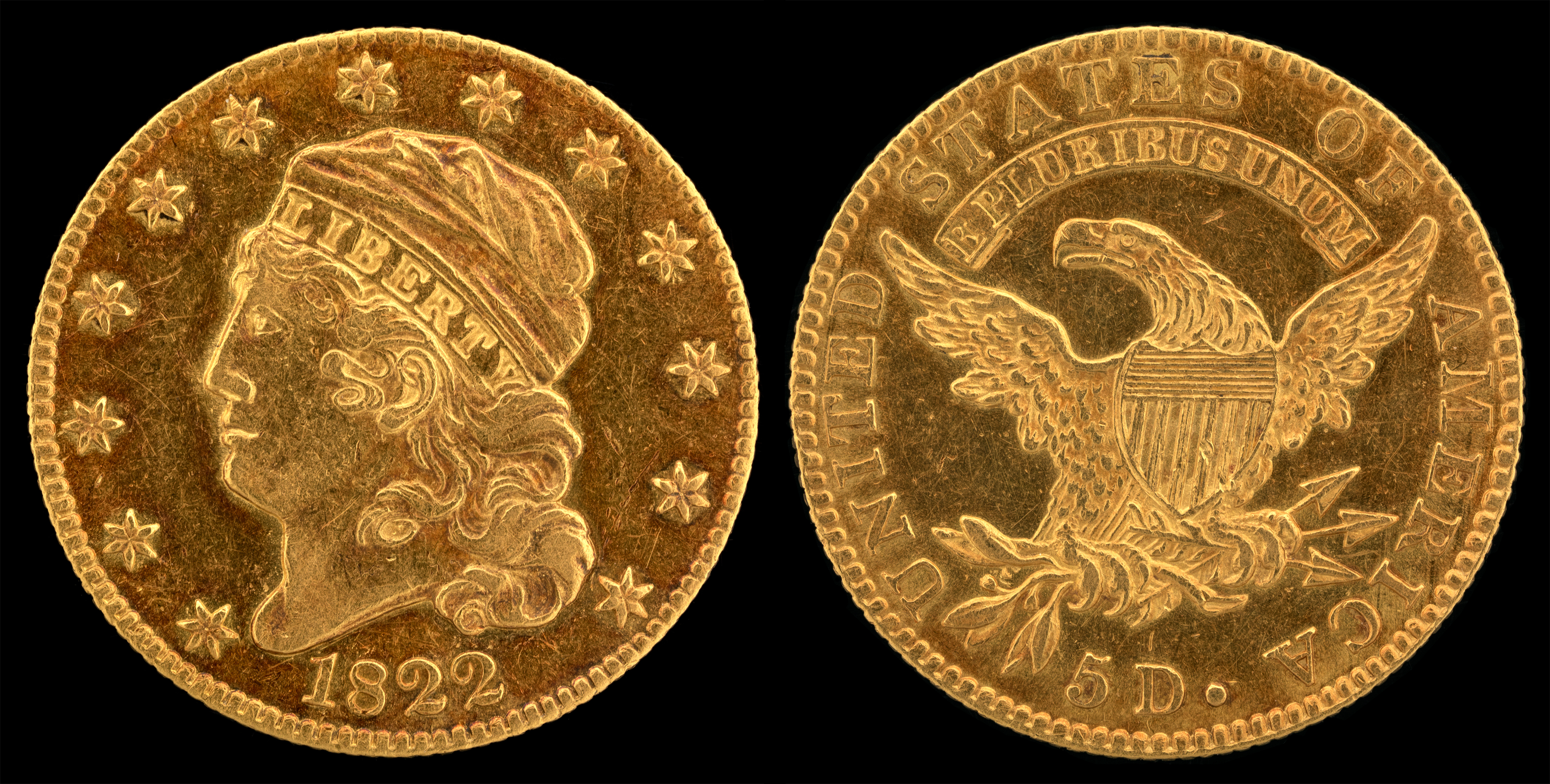 1822 G$5 Capped Head (large diameter)Gold (fineness 0.9160), 25mm, 8.75g, designed by ReichJN2015-5467-68